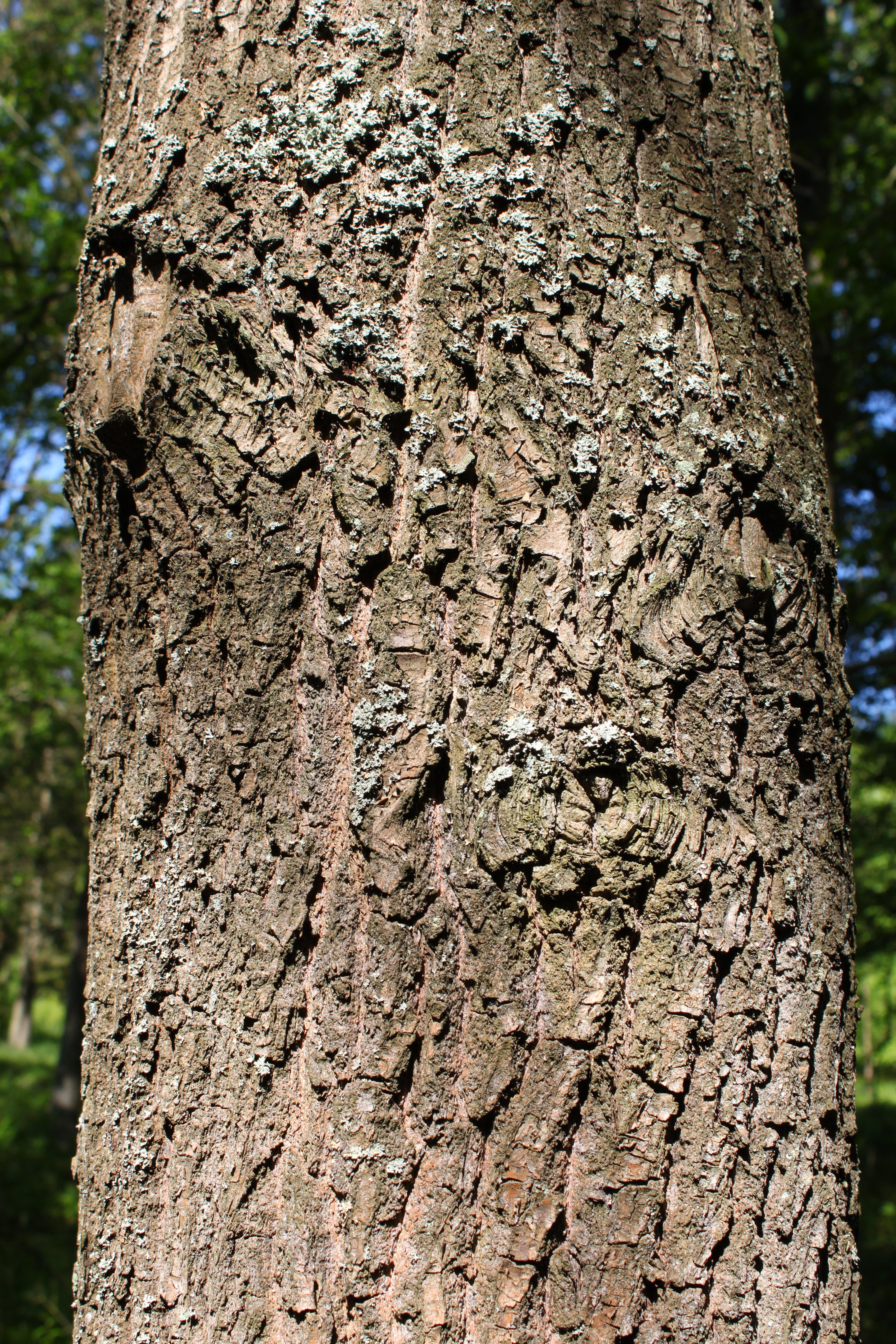 Quercus coccinea bark in Rogów Arboretum, Poland